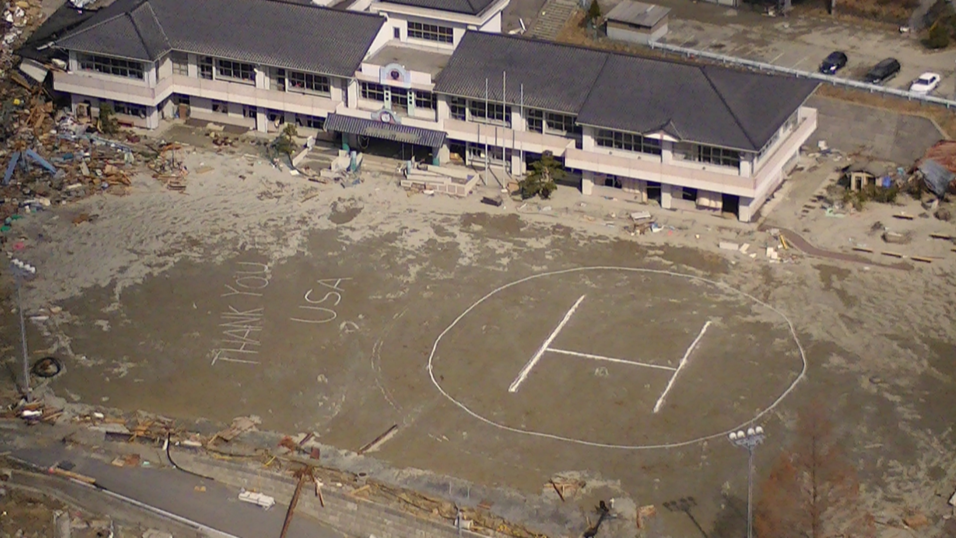 Natari elementary school, Minamisanriku, Miyagi Prefecture, Japan (March 23, 2011). --- An aerial view of a helicopter landing zone near an evacuee center shows a "Thank You" message in the mud deposited by a tsunami. (U.S. Navy photo by Naval Aircrewman 1st Class Sean Hughes/Released)